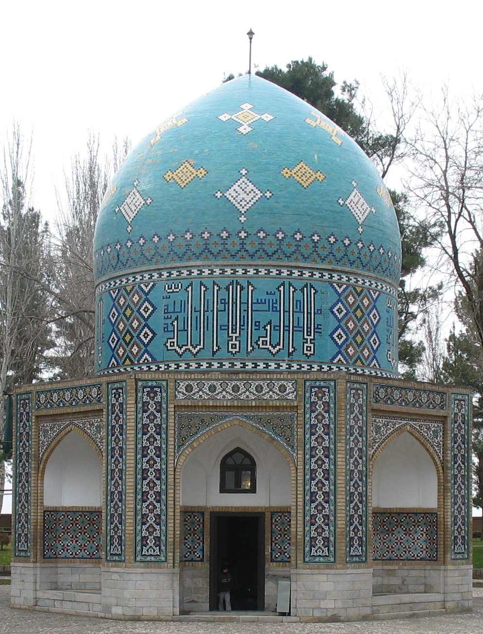 Focused picture on Attar's tomb Neyshabur